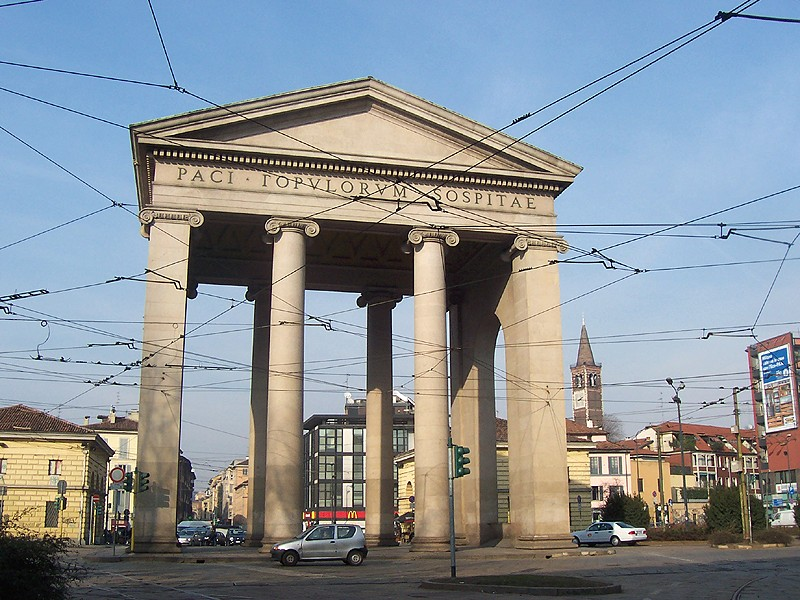 Porta Ticinese neoclassical city Gate in Milan, Italy, by Luigi Cagnola. The Latin inscription dedicates it "To Peace longed for by Peoples" after the Napoleonic wars. 1870s. Today.